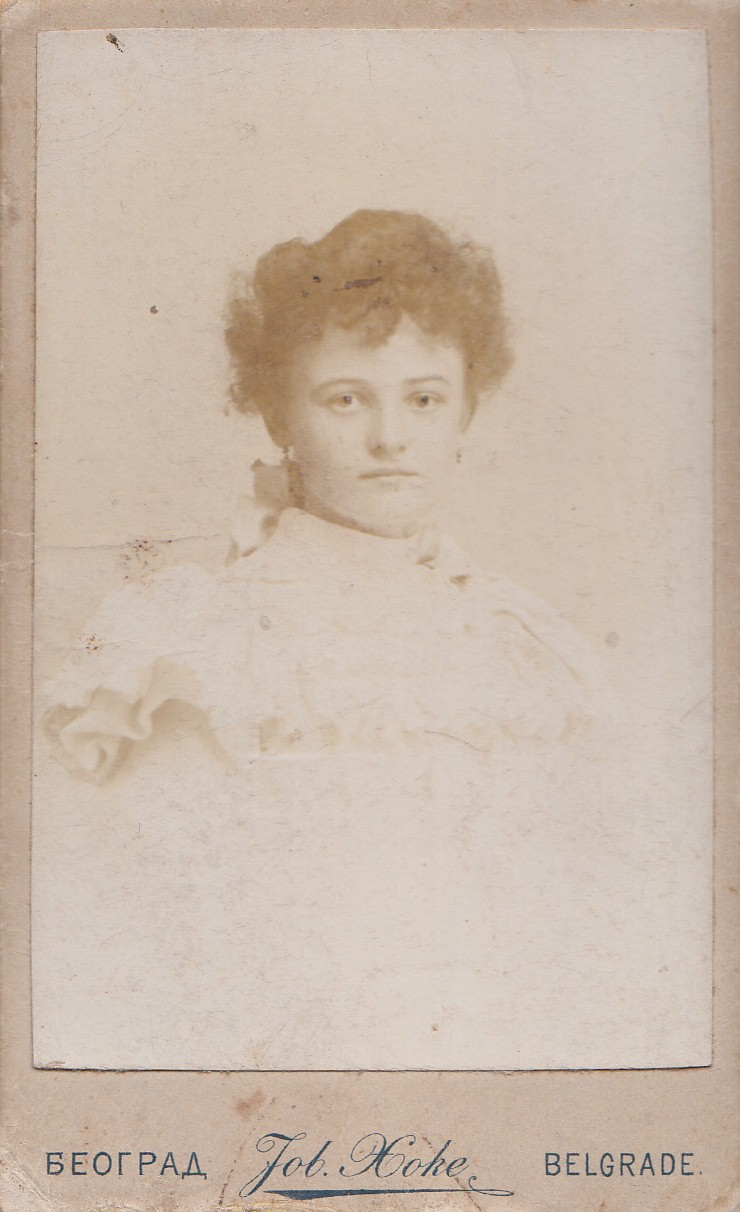 Milada Kutlíková (née Nekvasilová) (1880–1918), the wife of Cyril Kutlík, Slovak painter (early 20th century). Inventory number 1267. Srpski (latinica): Milada Kutljik (devojačko Nekvasil) (1880–1918), supruga Kirila Kutljika, slovačkog slikara (početak 20. veka). Inventarski broj 1267.